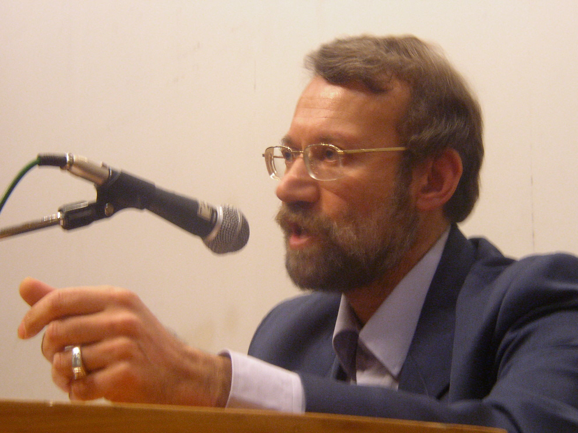 Ali Larijani while lecturing at Sharif University of Technology for his presidential campaign.